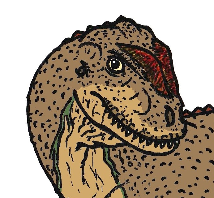 Rugops was a carnivorus dinosaur from Africa. It belonged to the family Abelisauridae.